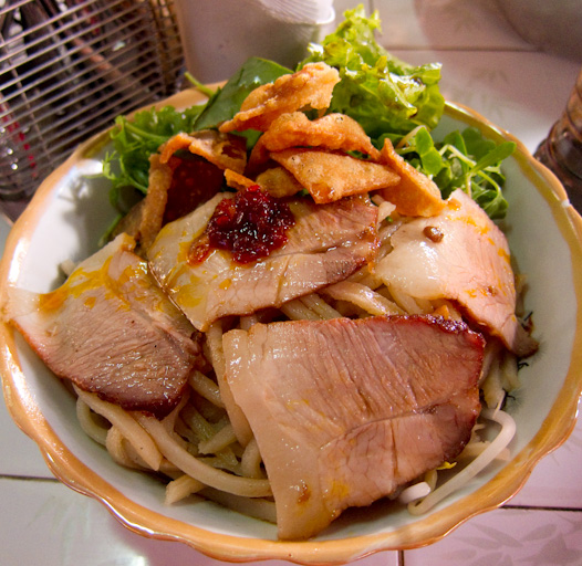 The finished dish. Succulent pork. Chili jam. Die die must try!